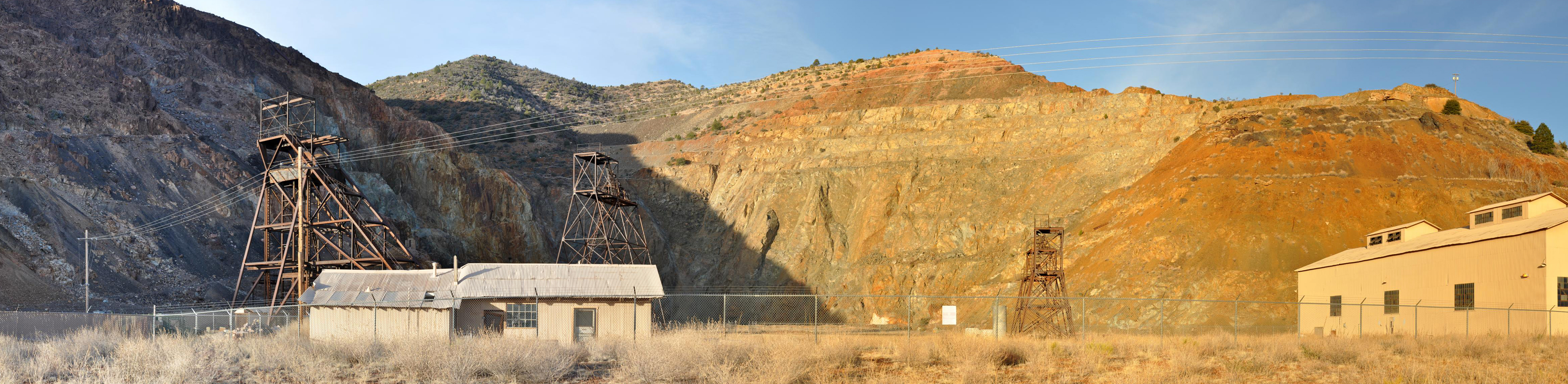 Site of the United Verde open-pit copper mine near Jerome in the U.S. state of Arizona. The mine ceased operations in 1953. Originally 11 vertical images. This panoramic image was created with Autostitch (stitched images may differ from reality).